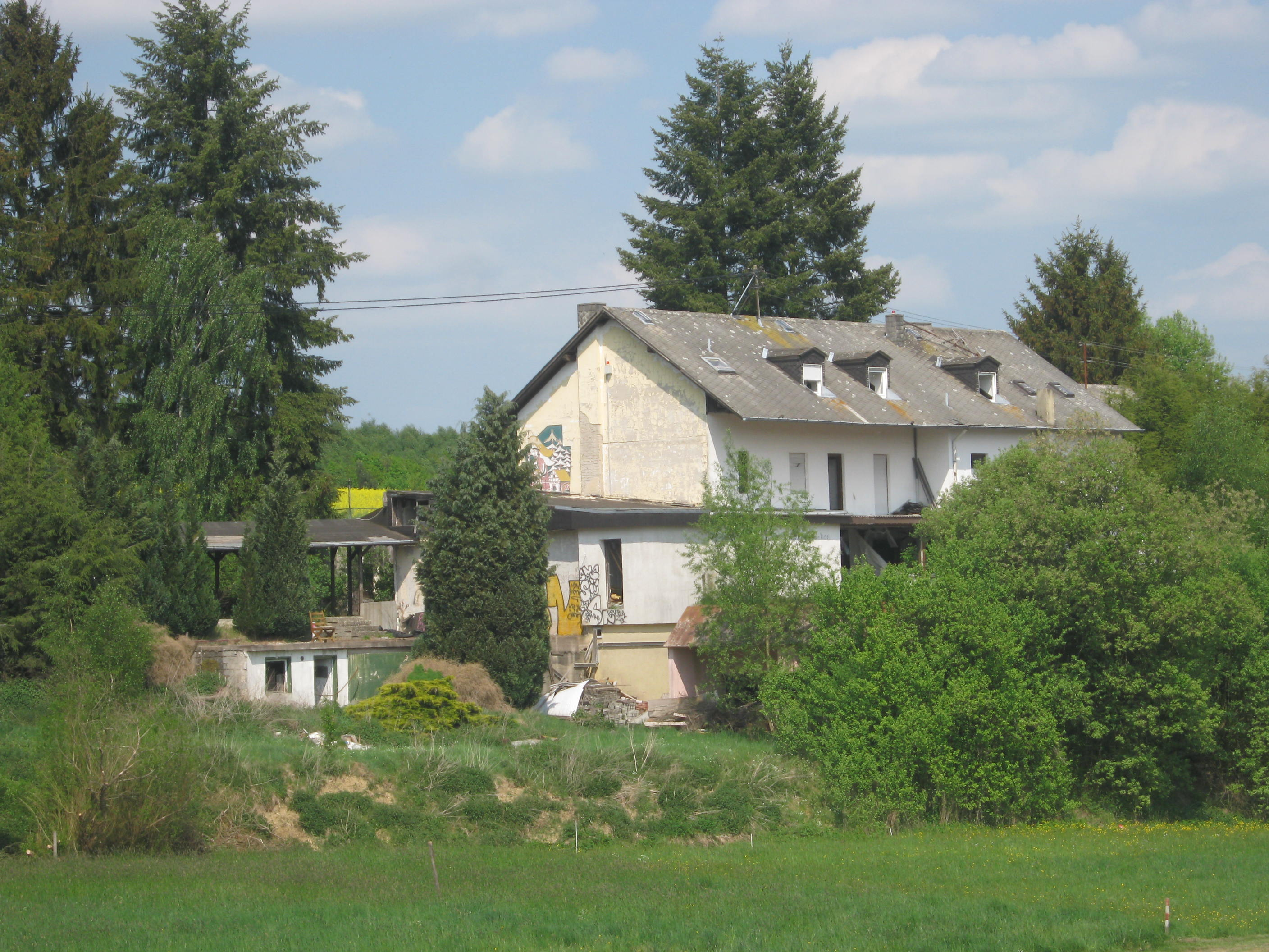 Michelbach (Hunsrück), Ruine Junkersmühle